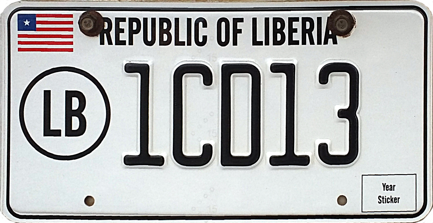 U.S. diplomatic license plate for Liberia, February 2017. Taken on Tubman Boulevard, 23 February 2017.